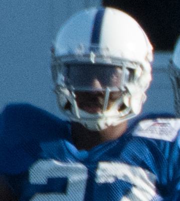 U.S. Department of Agriculture (USDA) Secretary Sonny Perdue and retired football great and NFL Hall-of-Famer Marshall Faulk, talk about USDA’s role in the NFL’s Fuel Up to Play 60 program, and the importance of milk nutrition and physical fitness; the students talk about how they have encourage others to include physical activity in their lives, schools and community; all the while the Indianapolis Colts football players are training on the adjacent football fields, at the Indiana Farm Bureau Football Center, in Indianapolis, IN, on August 8, 2017. U.S. Secretary of Agriculture Sonny Perdue is on a five-state RV tour, featuring stops in five states: Wisconsin, Minnesota, Iowa, Illinois, and Indiana; titled the “Back to Our Roots” Tour, he is gathering input on the 2018 Farm Bill and increasing rural prosperity, Aug. 3-8, 2017. Along the way, Perdue will meet with farmers, ranchers, foresters, producers, students, governors, Members of Congress, U.S. Department of Agriculture (USDA) employees, and other stakeholders. This is the first of two RV tours the secretary will undertake this summer. “The ‘Back to our Roots’ Farm Bill and rural prosperity RV listening tour will allow us to hear directly from people in agriculture across the country, as well as our consumers – they are the ones on the front lines of American agriculture and they know best what the current issues are,” Perdue said. “USDA will be intimately involved as Congress deliberates and formulates the 2018 Farm Bill. We are committed to making the resources and the research available so that Congress can make good facts-based, data-driven decisions. It’s important to look at past practices to see what has worked and what has not worked, so that we create a farm bill for the future that will be embraced by American agriculture in 2018.” For social media purposes, Secretary Perdue’s Twitter account (@SecretarySonny) will be using the hashtag #BackToOurRoots. USDA Photo by Lance Cheung.